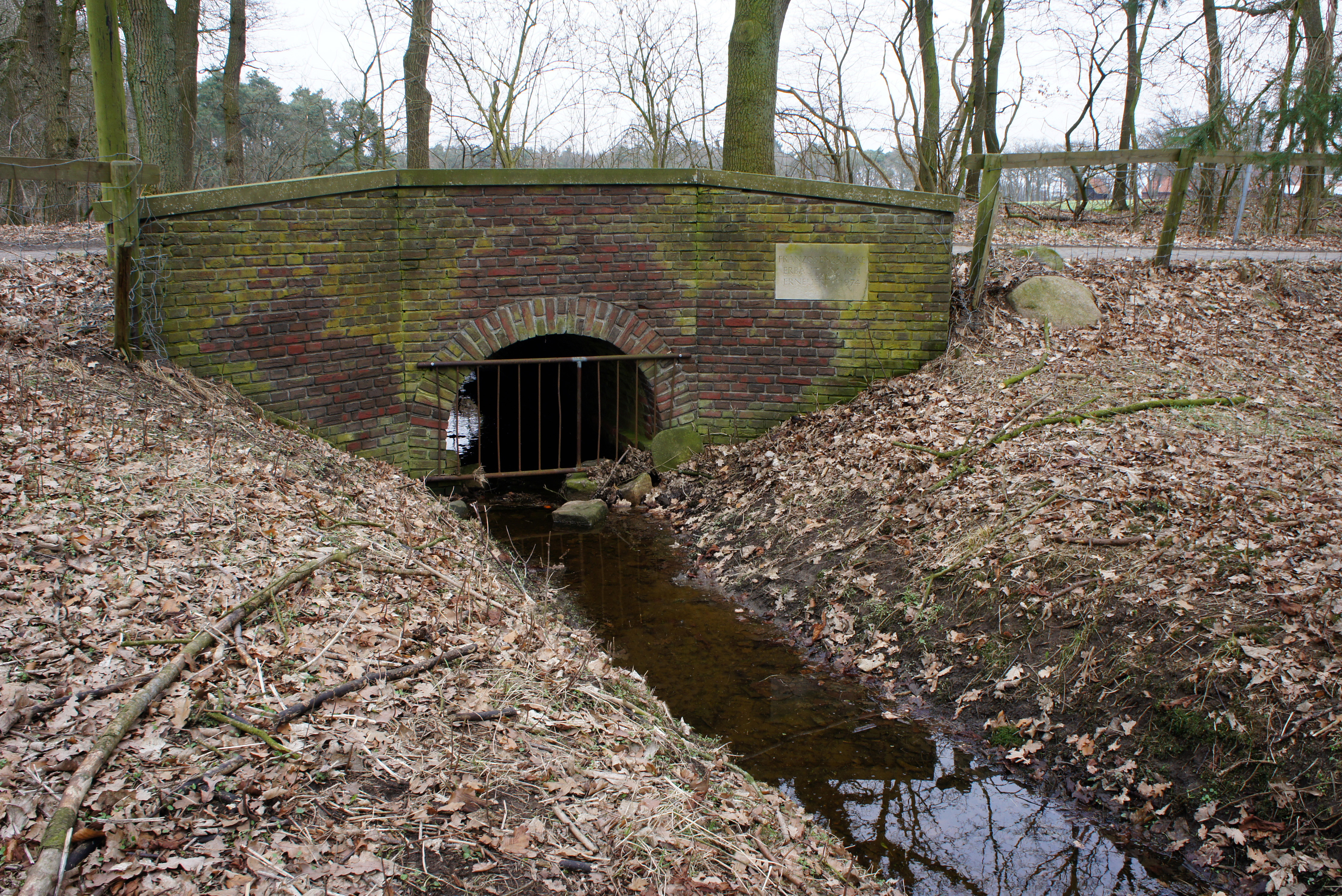 French bridge over the Dingsteder Baeke, built around 1811